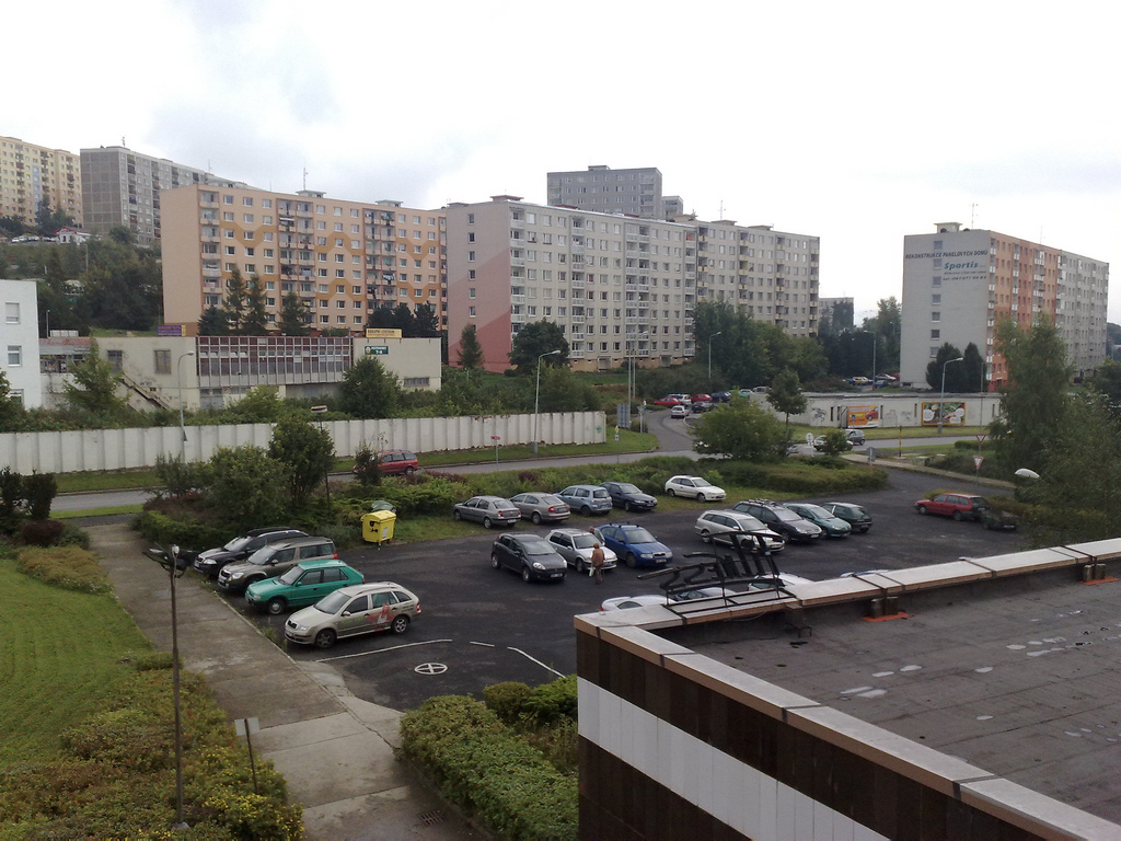 Ústí nad Labem, Stříbrníky. Little Microdistrict from Panelhouses